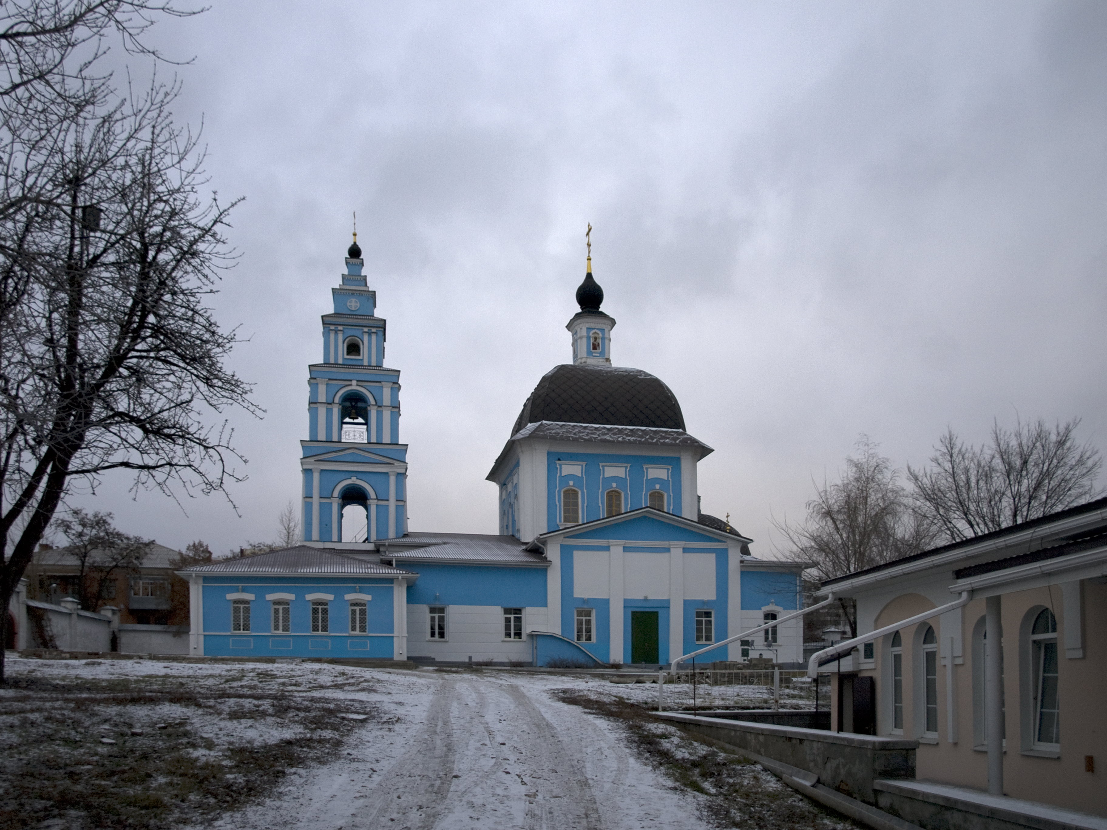 Intercession Church, Marfo-Mariinsky Monastery, Belgorod